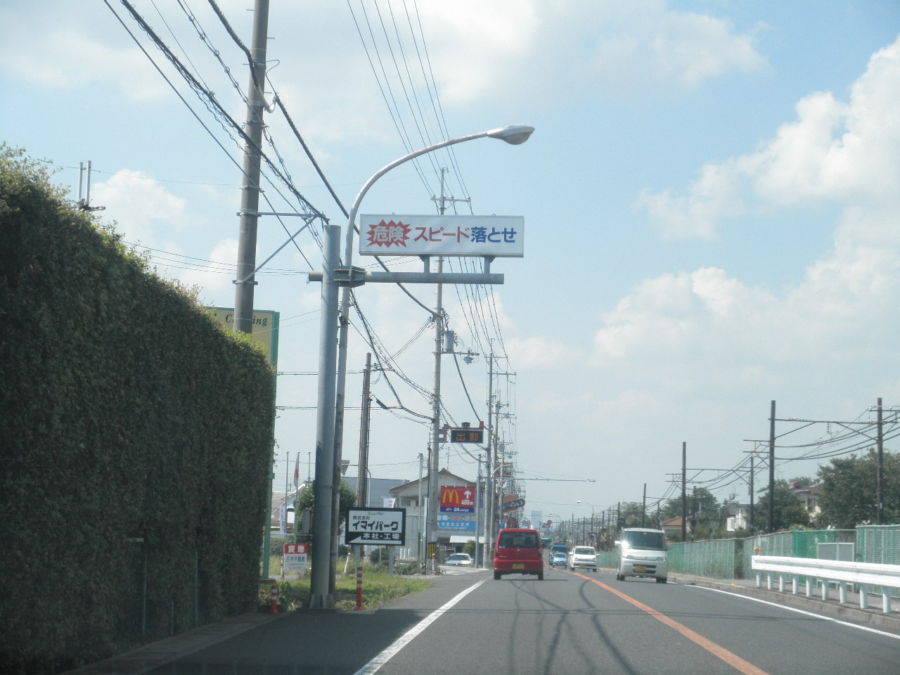 Shijimitown Nakajiyugaoka2 Mikicity Hyogopref Hyogoprefectural road 22 Kobe Miki line